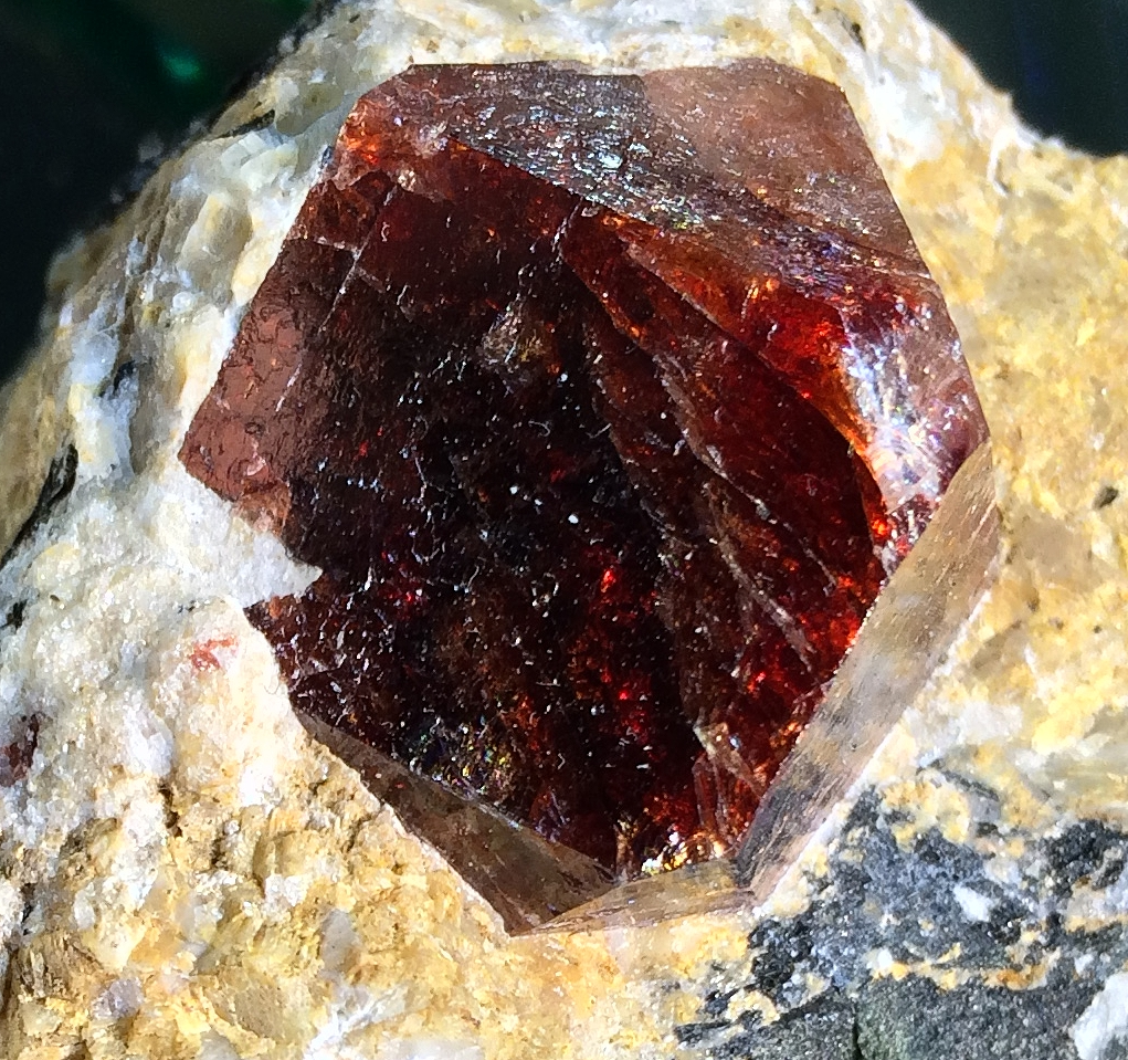 Zircon crystal. Pakistan.